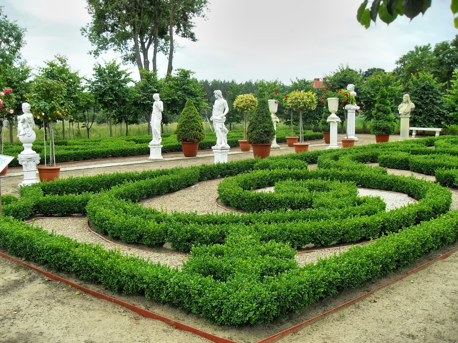 Frank - Polish Gardens Street Kociewie - National show 22